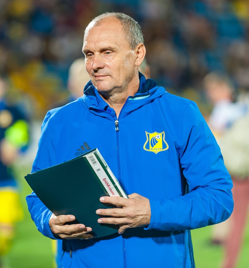 Vitaliy Kafanov working for FC Rostov in a game against FC Krylia Sovetov Samara.